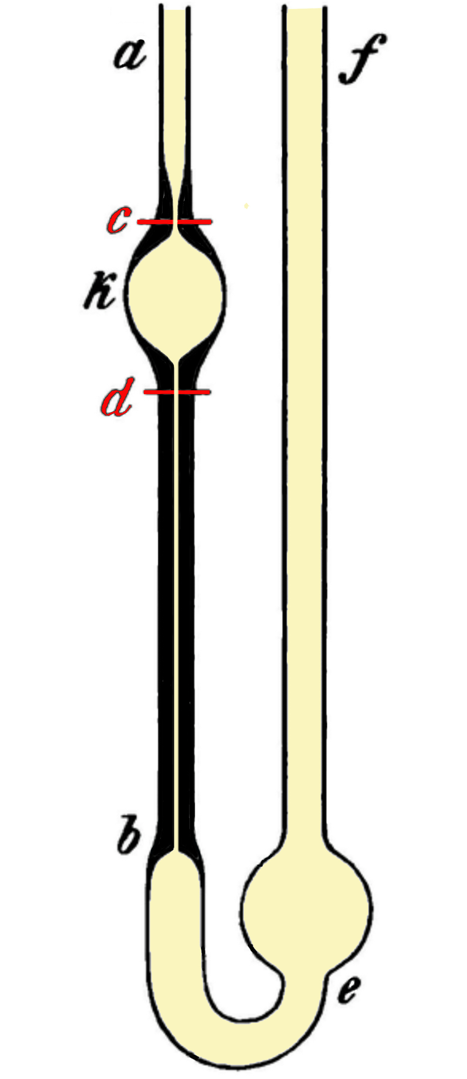 Ostwald viscometer, original drawing by W. Ostwald 1891